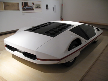 This is the Ferrari Modulo prototype, made by Paolo Martin of Pininfarina in 1970.